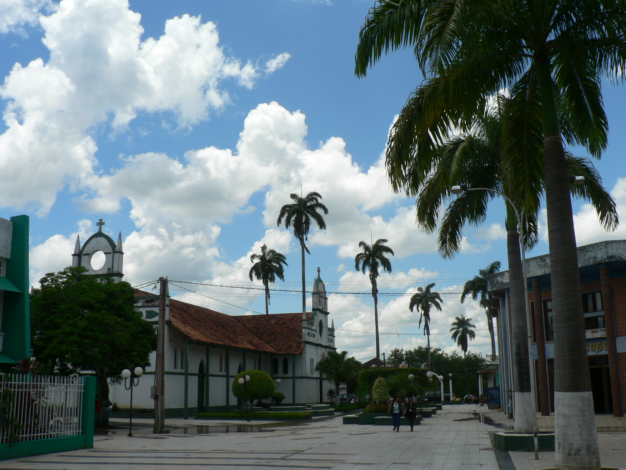 Part of the main square and the church of Cobija, Pando, Bolivia.